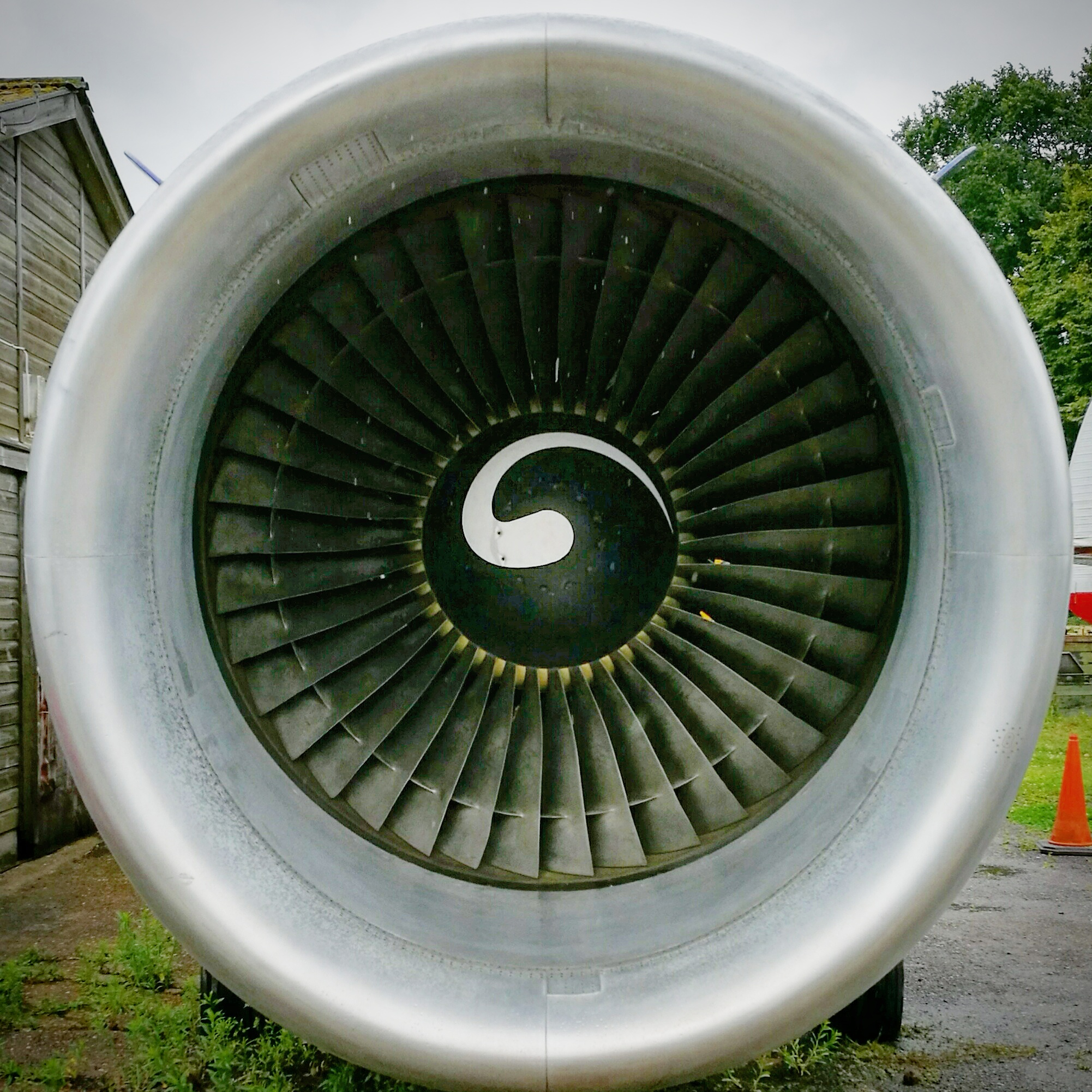 The General Electric CF6 turbo-fan gas turbine outside Gatwick Aviation Museum.